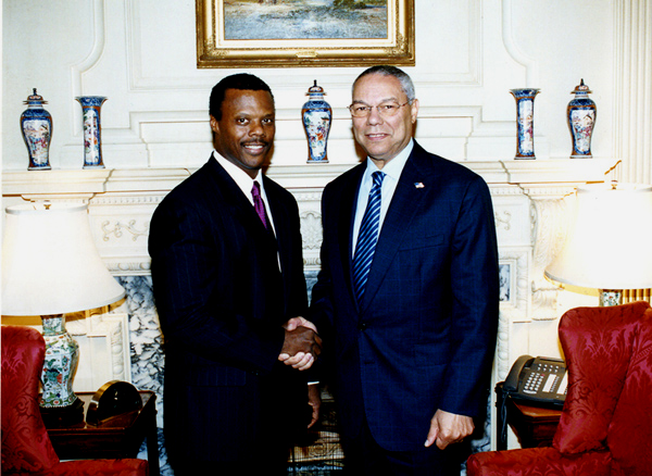 Secretary Powell met with J. C. Watts, former Oklahoma Congressman, who led U.S. delegation to the Conference on Racism, Xenophobia and Discrimination in Vienna.